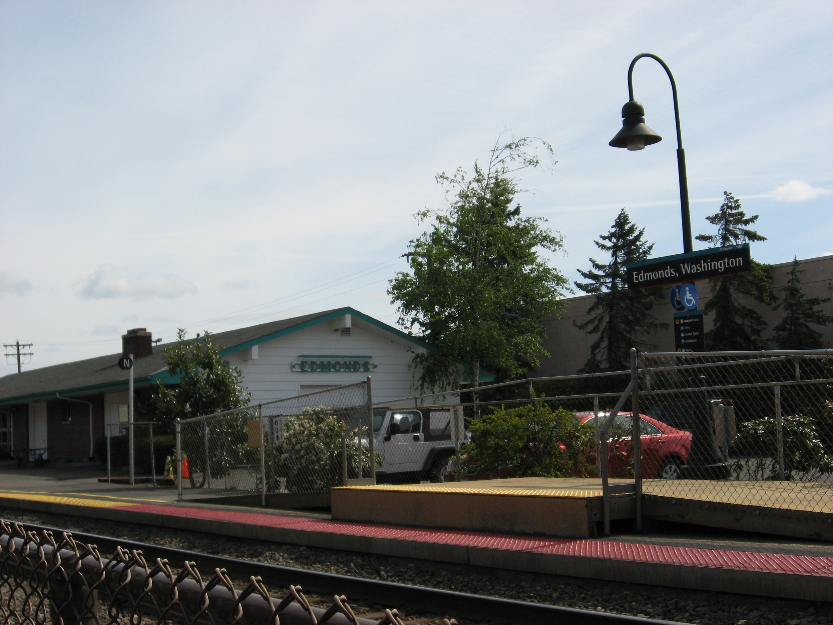 A picture of the Edmonds, WA Amtrak station.